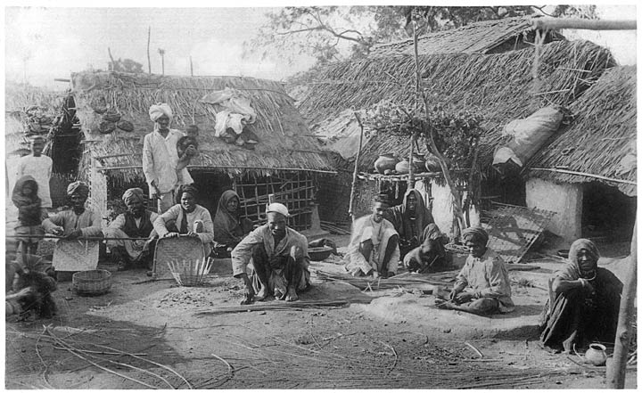 "Basors making baskets of bamboo." from The Tribes and Castes of the Central Provinces of India Volume II Author: R. V. Russell